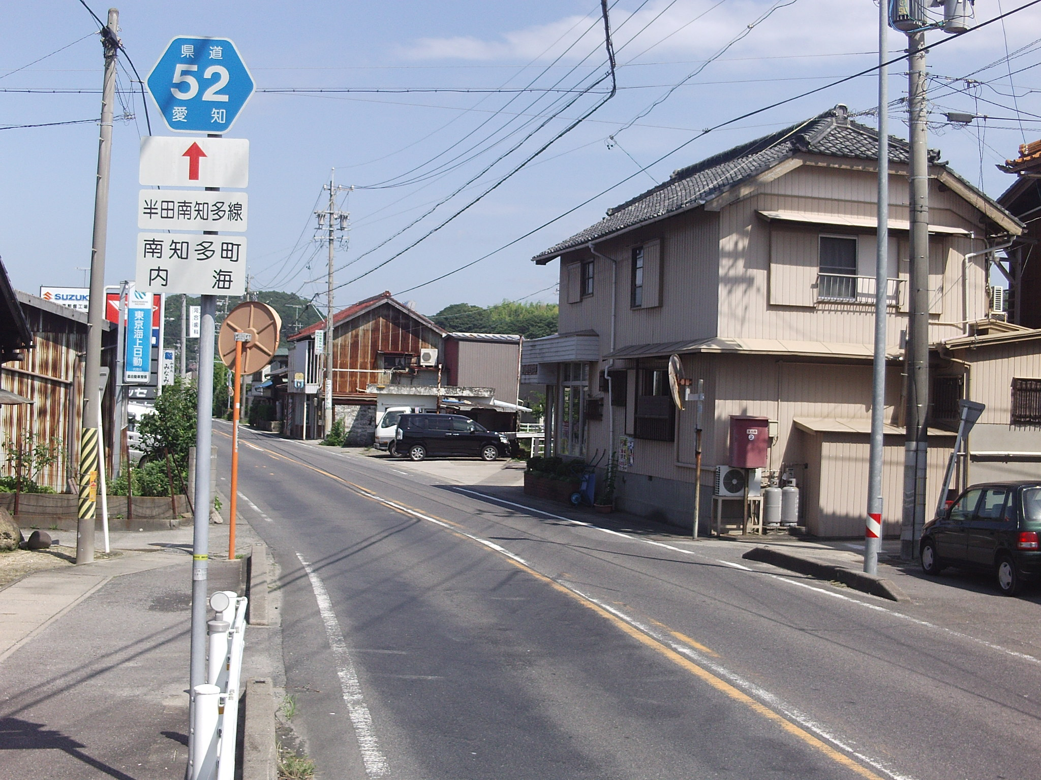 The Aichi Prefectural Road Route 52 in Utsumi, Minamichita Town